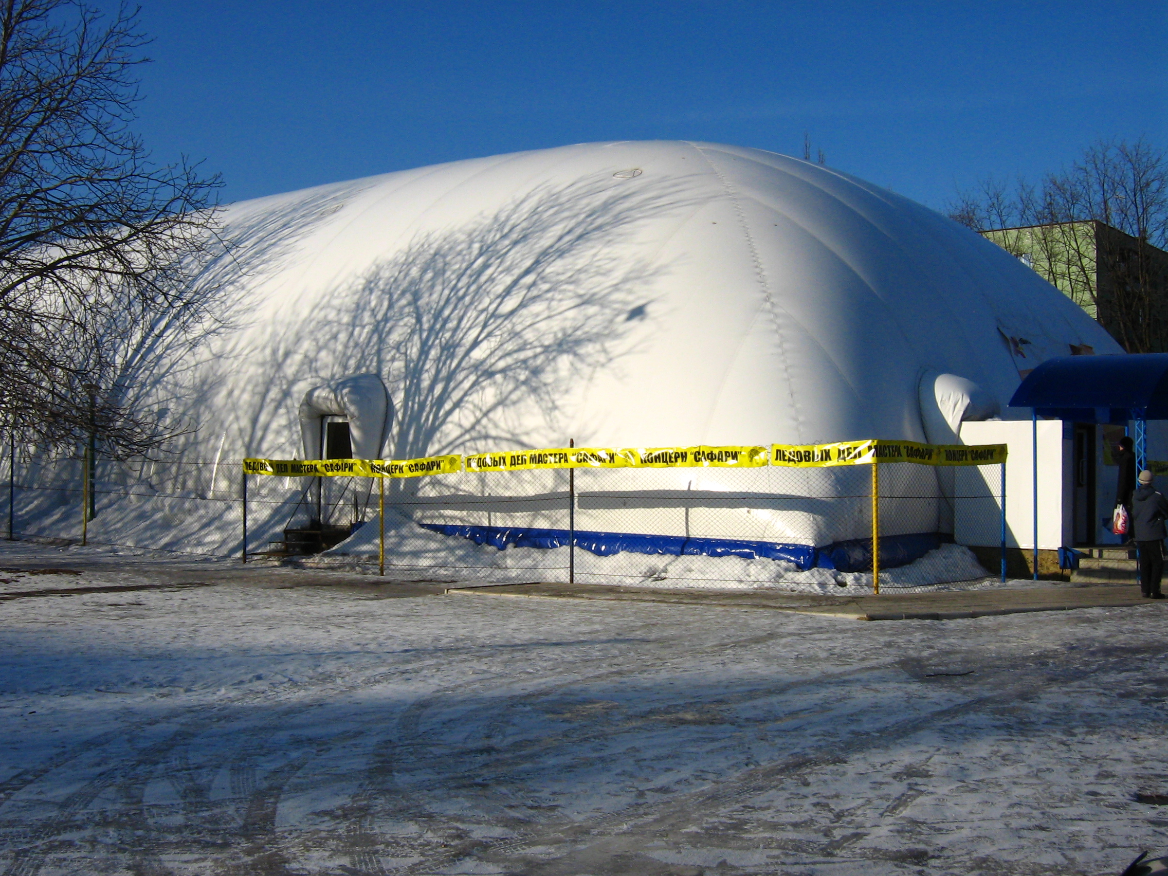 The big ice skating. View from the outside. Kharkov, Harkovskih Divizy Street.